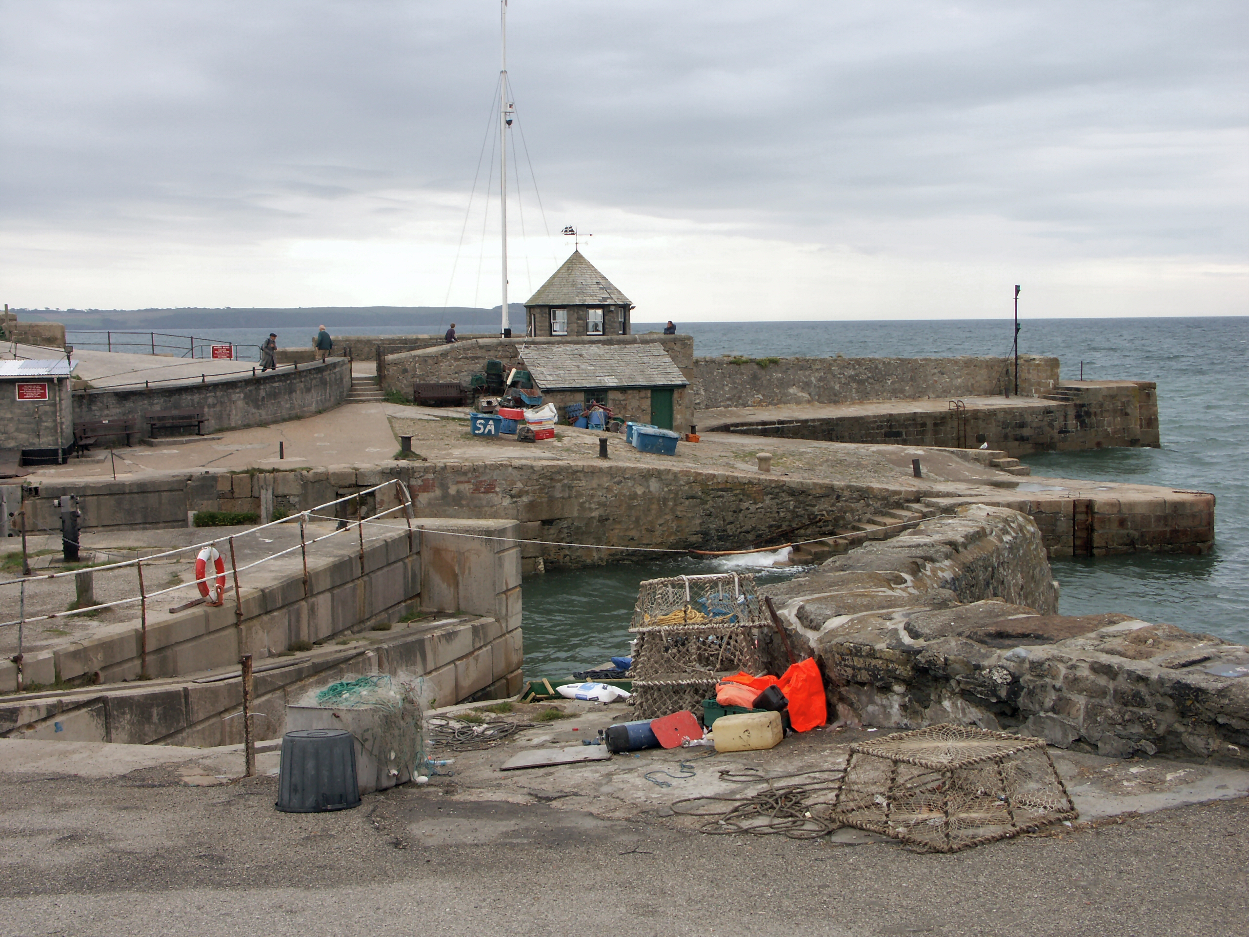 Charlestown Harbour near St. Austell